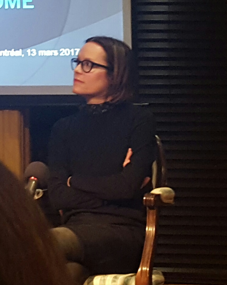 Martine Delvaux photographed in Montreal, Quebec, Canada inside the Quebec Writers Union building.